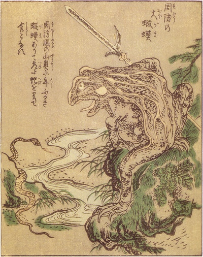 Ōgama (大蝦蟇) from the Ehon Hyaku Monogatari (絵本百物語)